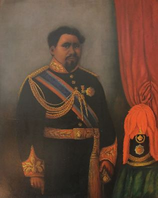 Painting of King Kamehameha V of Hawaii. Portrait authorized for the Government by the Legislature of 1866, $1,000 being appropriated for the painting of the portraits of Kamehameha IV and Kamehameha V